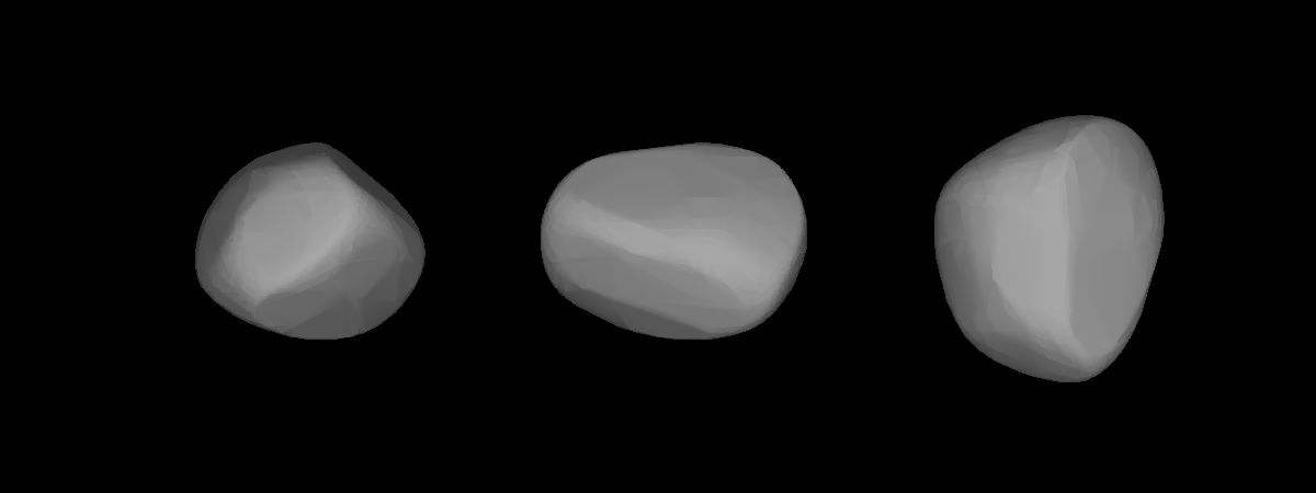 A three-dimensional model of 196 Philomela that was computed using light curve inversion techniques.